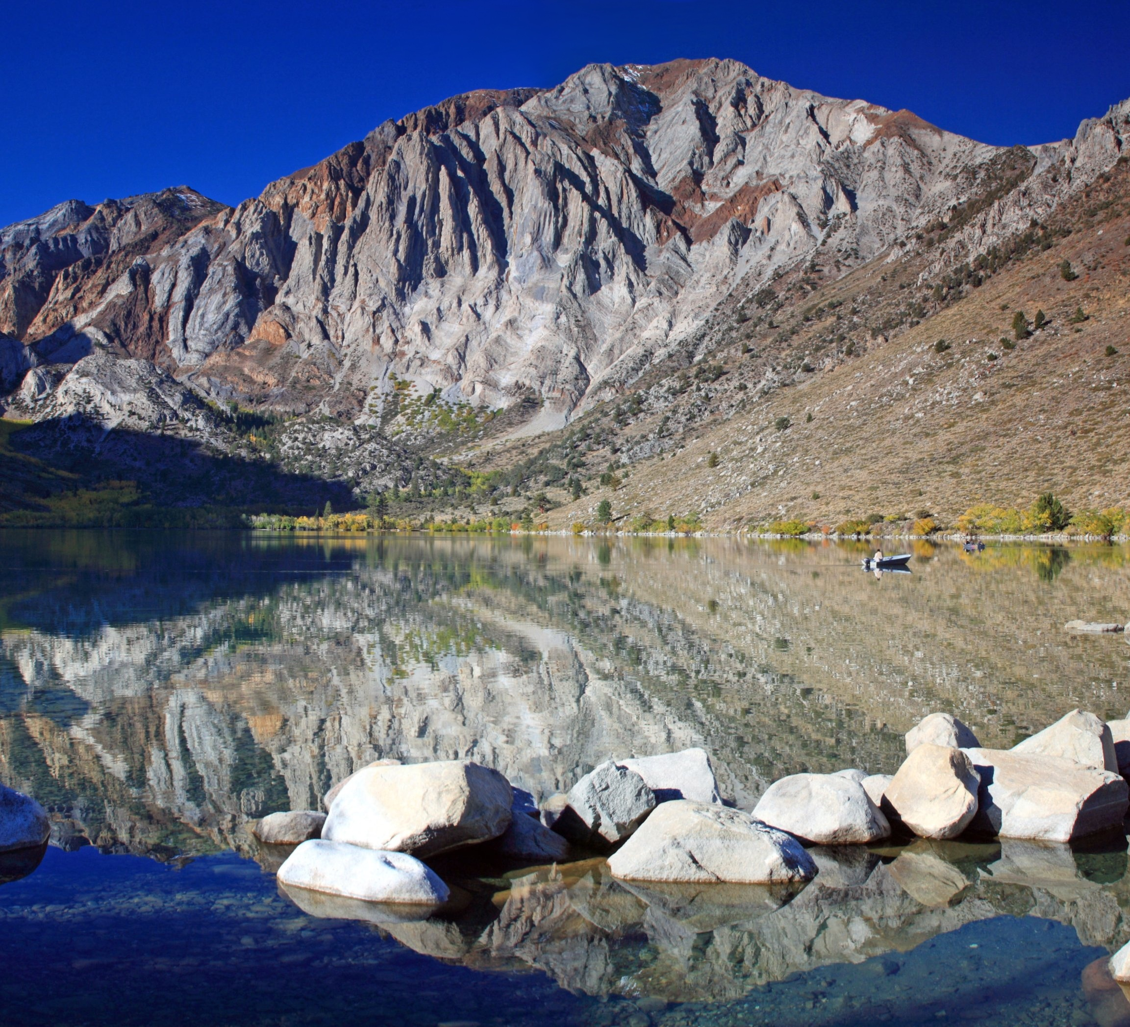 Convict Lake in the eastern Sierra Nevada, near Mammoth Lakes, California